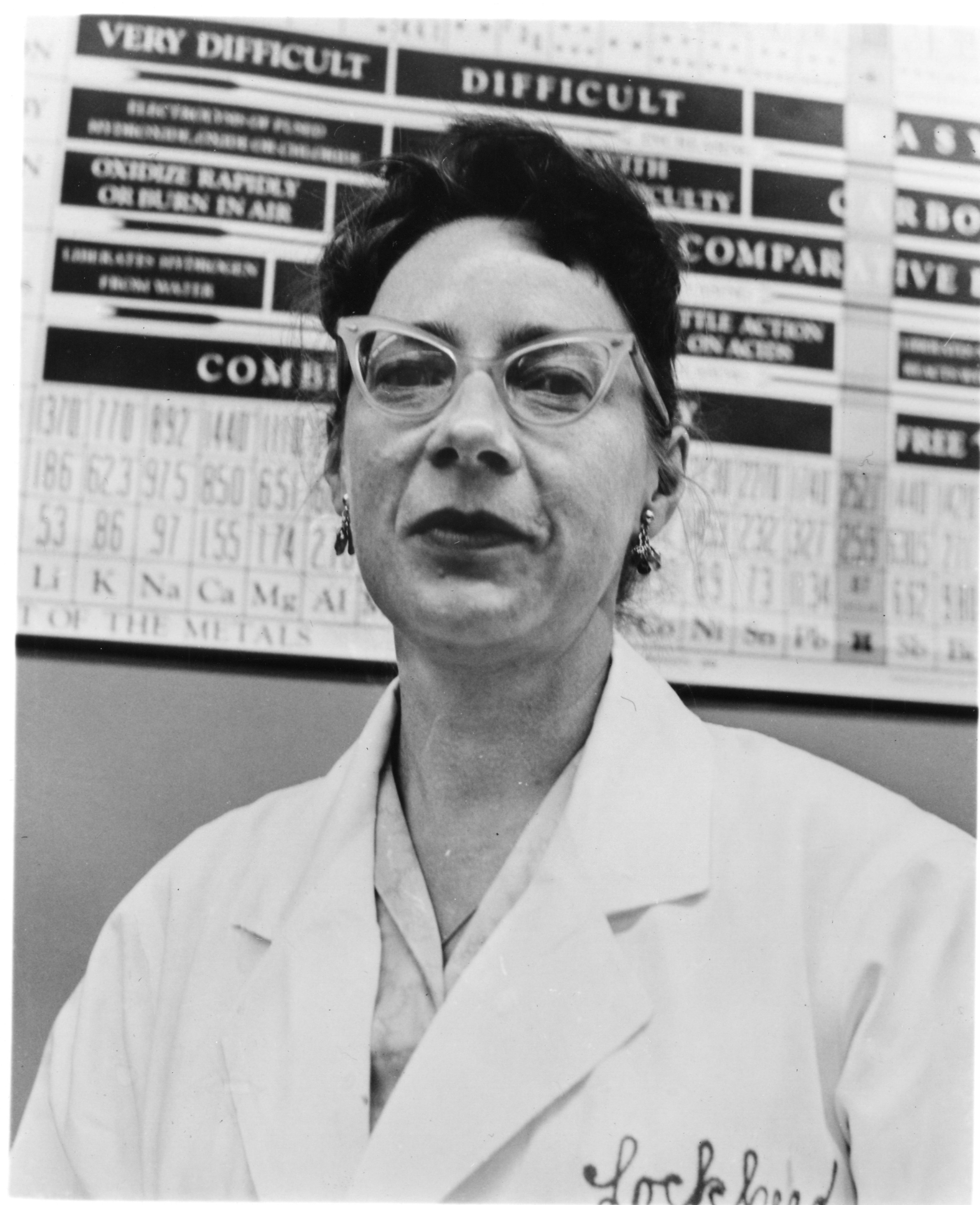 Description: The caption accompanying this Lockheed Missiles and Space Company public relations photo read: "Wanda G. Bradshaw is in the metallurgy and ceramics department of Lockheed's research laboratories. A graduate of Whittier College, with a B.S. in chemistry, she is engaged currently in measuring corrosion of metals. Her husband is an engineering writer for Lockheed. Their interests include baroque music." Creator/Photographer: Unidentified photographer Medium: Black and white photographic print Date: 1962 Persistent URL: Repository: Smithsonian Institution Archives Collection: Accession 90-105: Science Service Records, 1920s – 1970s - Science Service, now the Society for Science & the Public, was a news organization founded in 1921 to promote the dissemination of scientific and technical information. Although initially intended as a news service, Science Service produced an extensive array of news features, radio programs, motion pictures, phonograph records, and demonstration kits and it also engaged in various educational, translation, and research activities. Accession number: SIA2007-0338